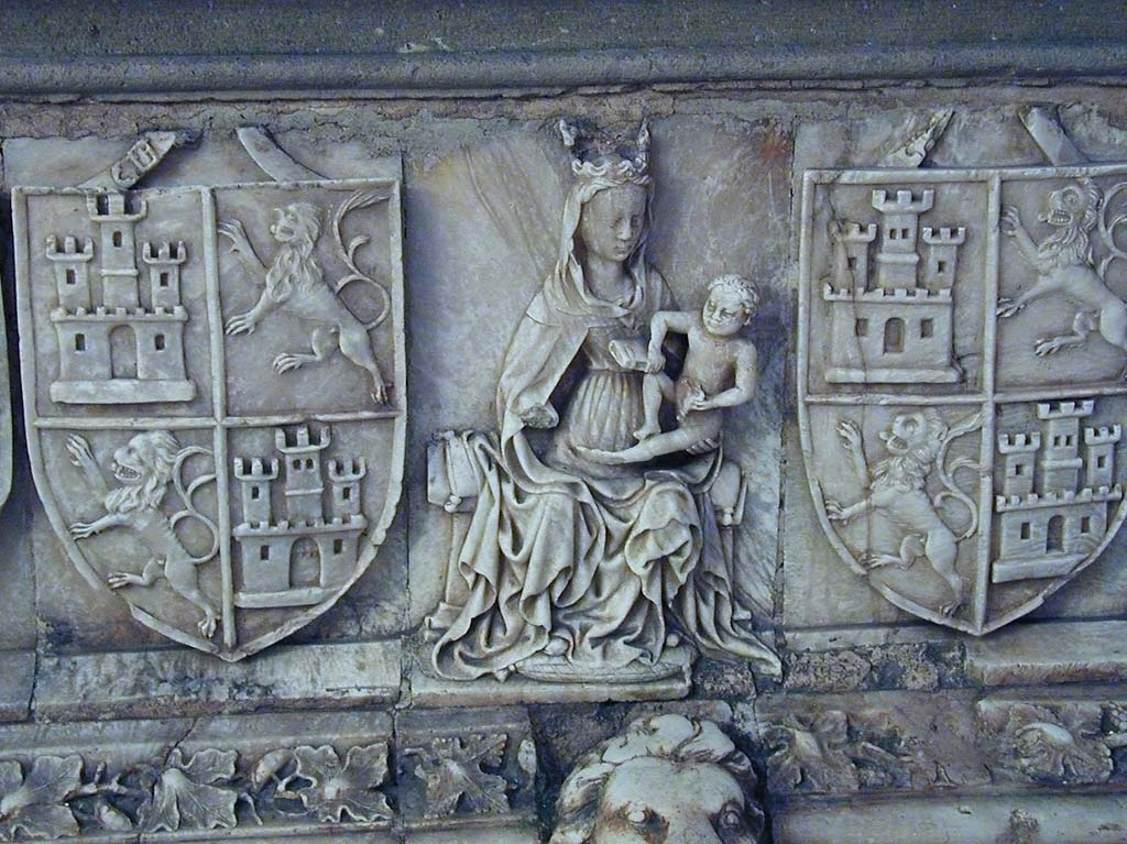 Virgin and Child and the coat of arms of the Royal house of Castile and Leon. Alabaster monument of Maria de Molina. Monastery of San Francisco de Valladolid, Spain.